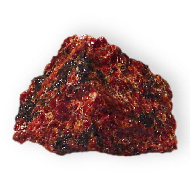 These mineral images are free to use how you wish.